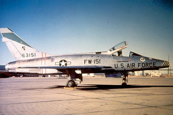 481st Tactical Fighter Squadron - North American F-100D-75-NA Super Sabre - 56-3151